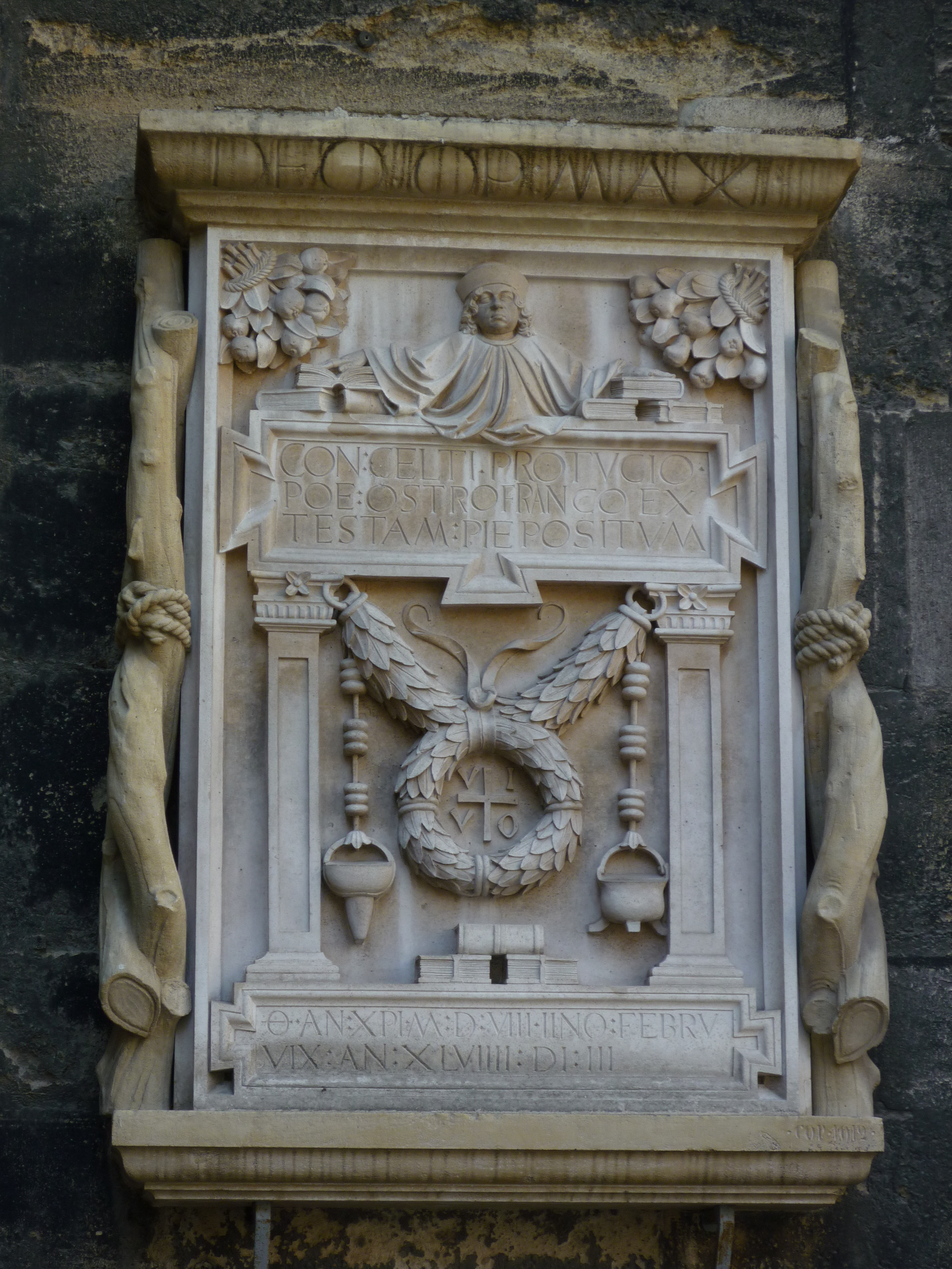 Epitaph of Conrad Celtis in St. Stephen's Cathedral, Vienna (Replication)